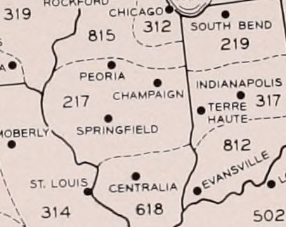 NANP area code 217 and its neighbours.